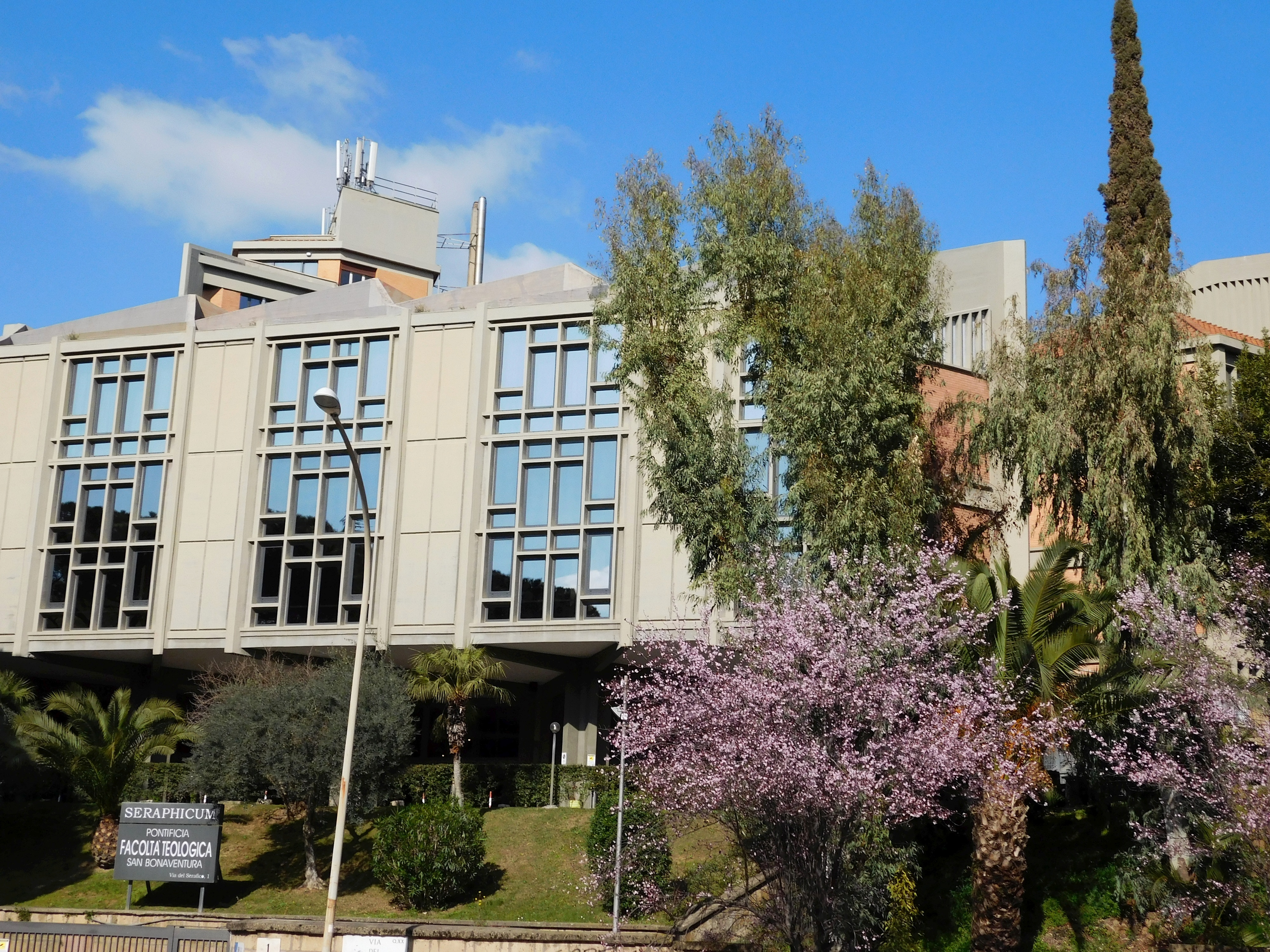 Pontifical College of Theology 'St. Bonaventure' (Rome) - spring 2017